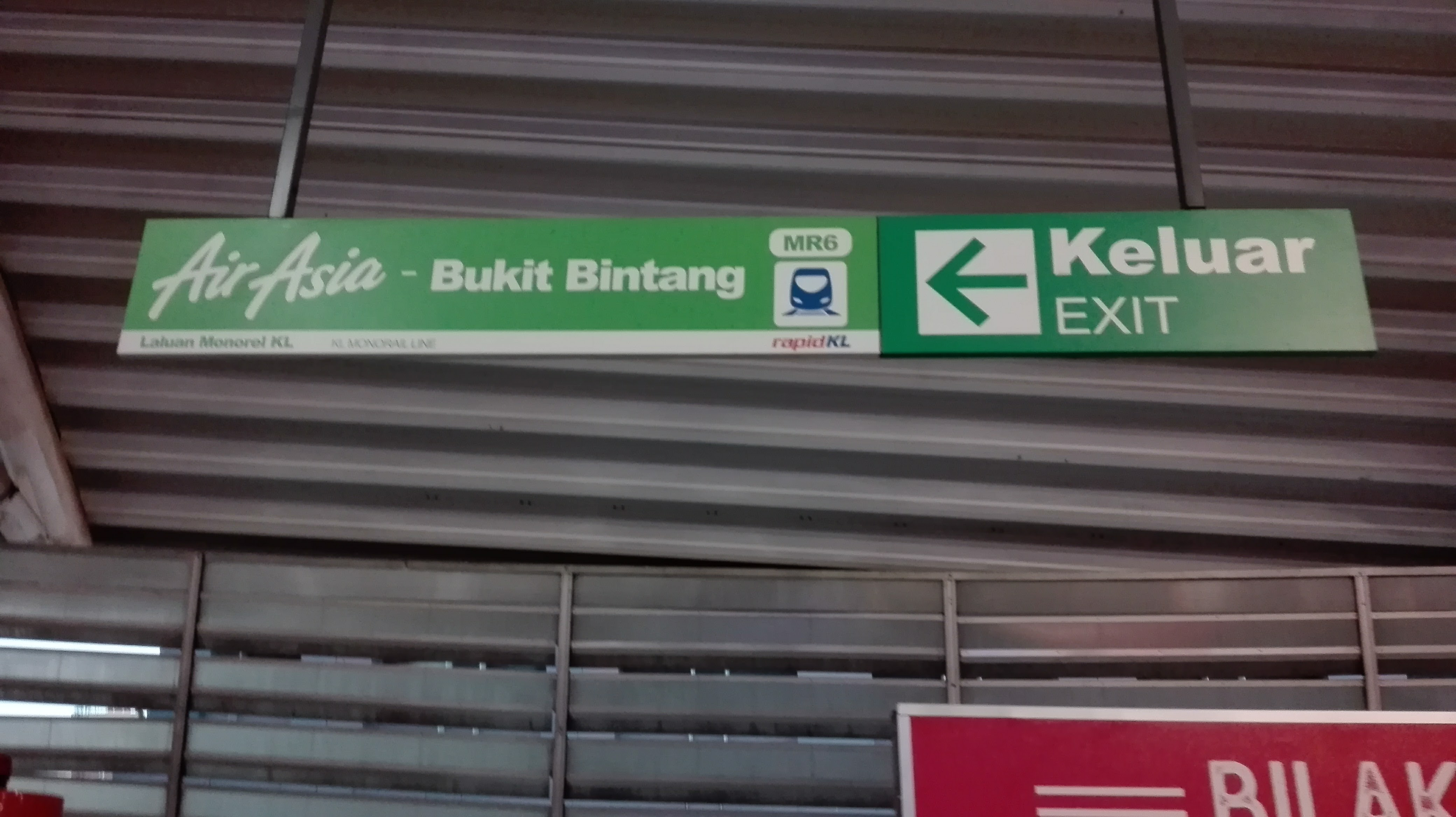 The signboard at the monorail station in Bukit Bintang.